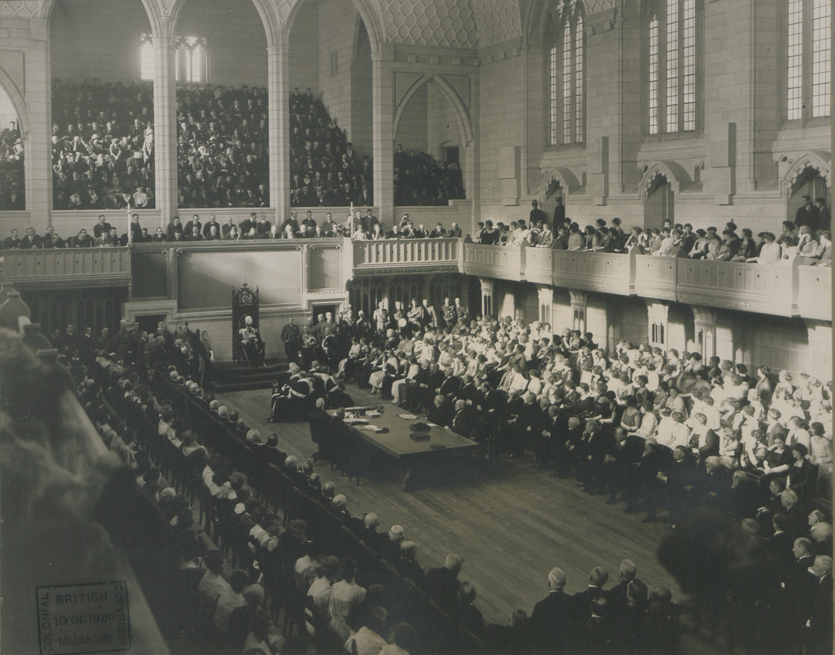 Original caption: “The opening of Canadian Parliament.”